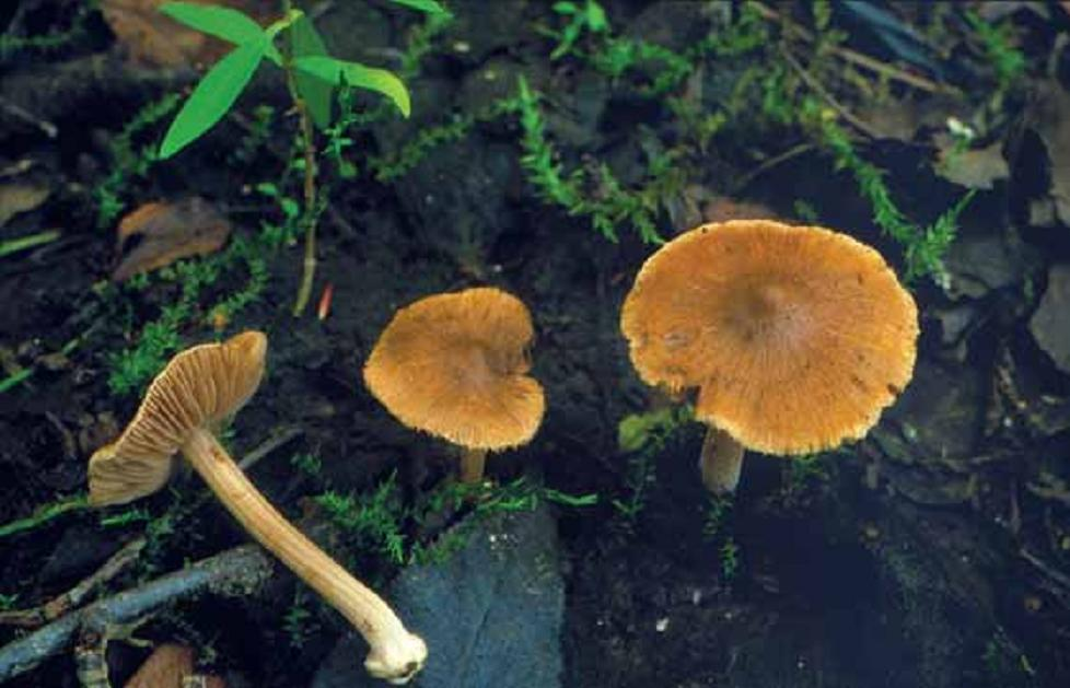 The holotype of the species Inocybe saliceticola. The specimen was collected from the shore of lake Pahakala, near Salmi.